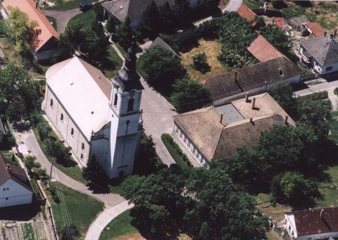 Reformed church in Madocsa, Hungary, aerialphotgraphy